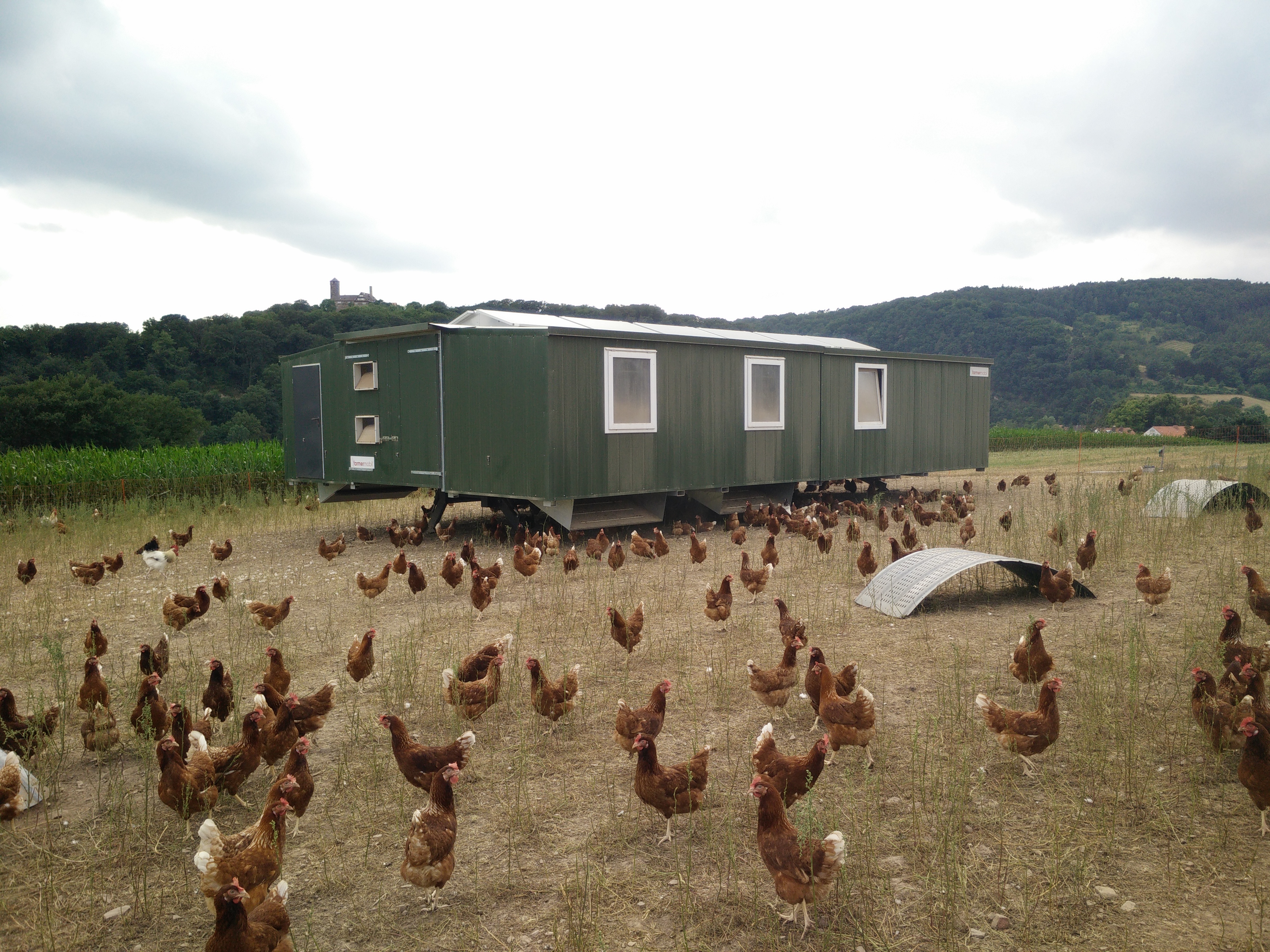 Eins der größeren Modelle